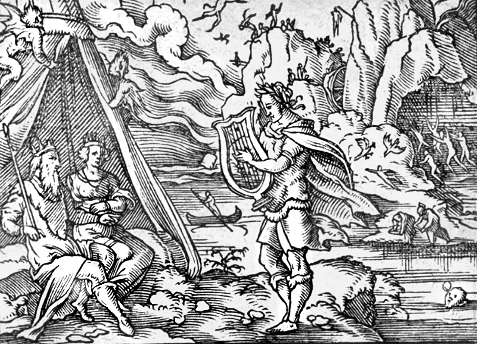 Orpheus in front of Pluto (Hades) and Proserpina (Persephone). Engraving by Virgil Solis for Ovid's Metamorphoses Book X, 11-52.